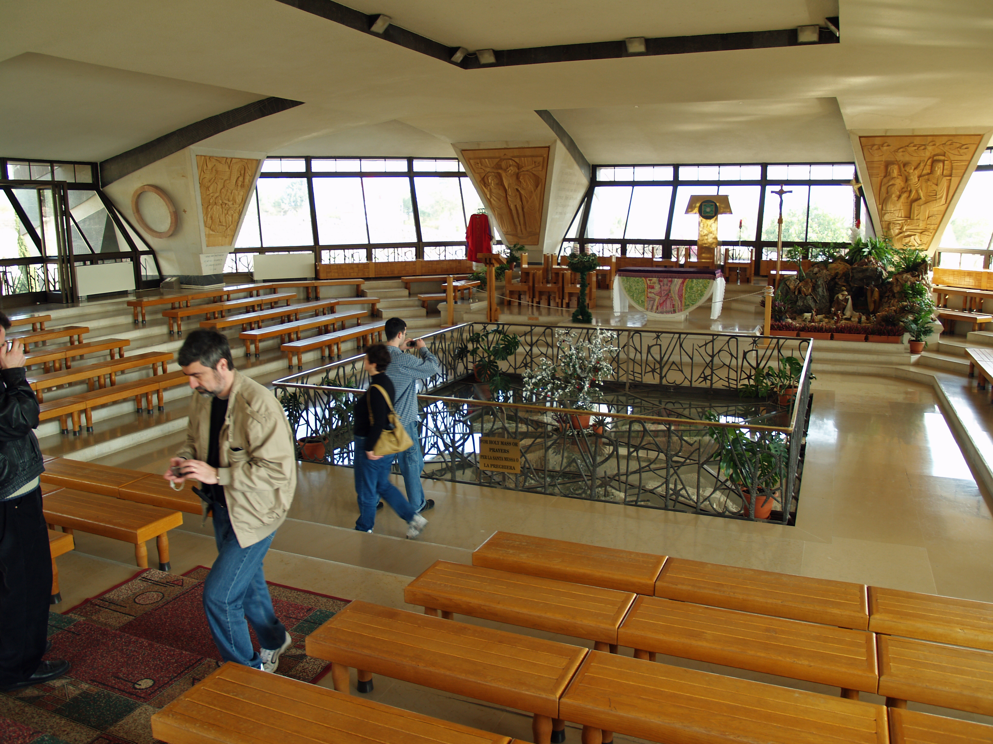 Interior of modern Catholic church in Capernaum; located inside the ruins of the original are enclosed in glass in the center.